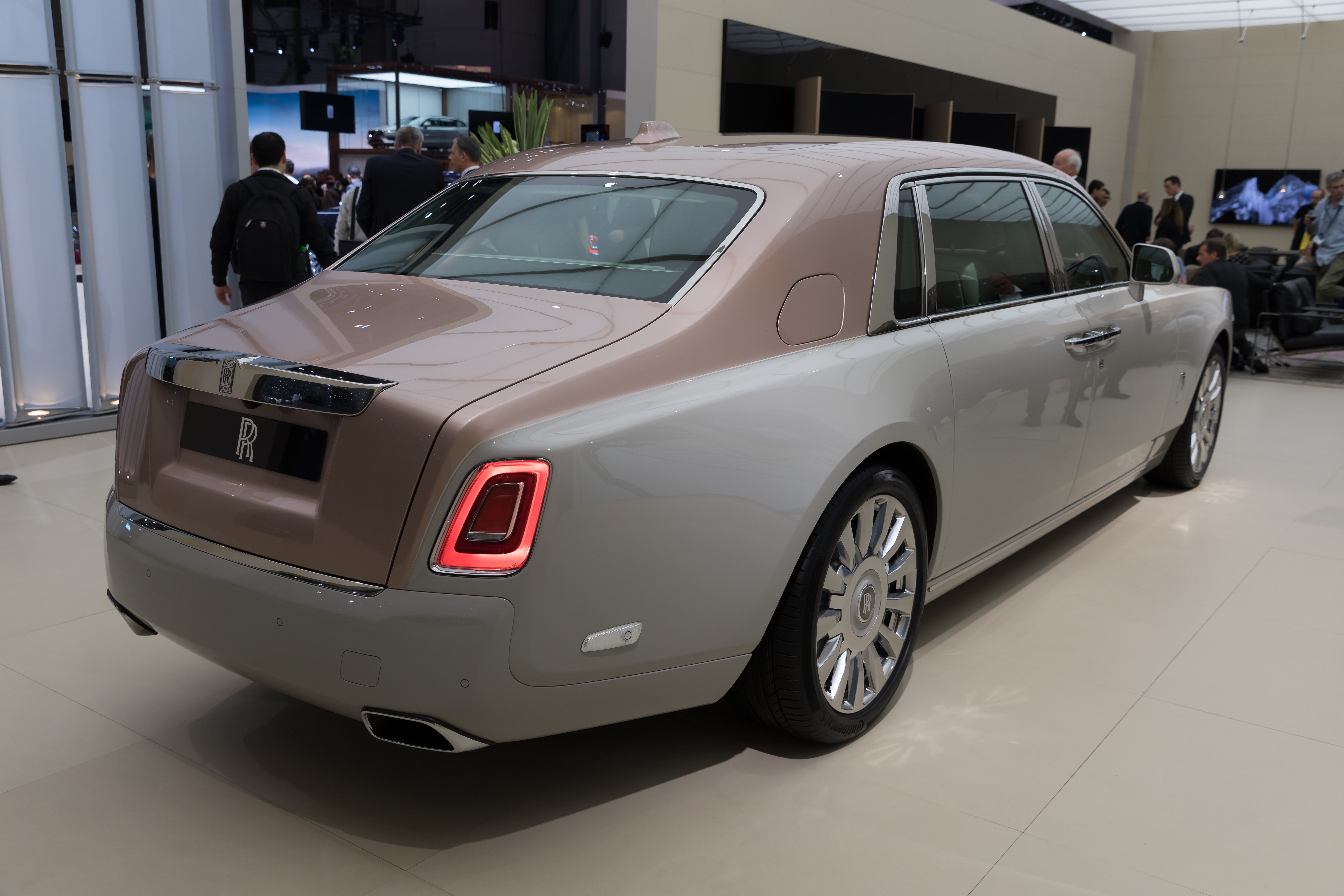 Geneva International Motor Show 2018